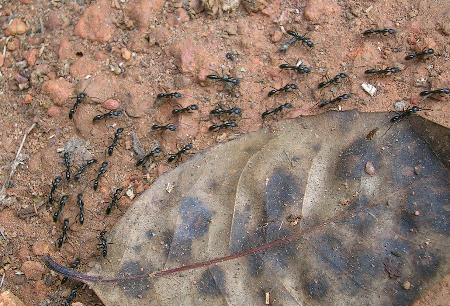 Ants (Leptogenys ? sp. ), Wayanad, Kerala, India